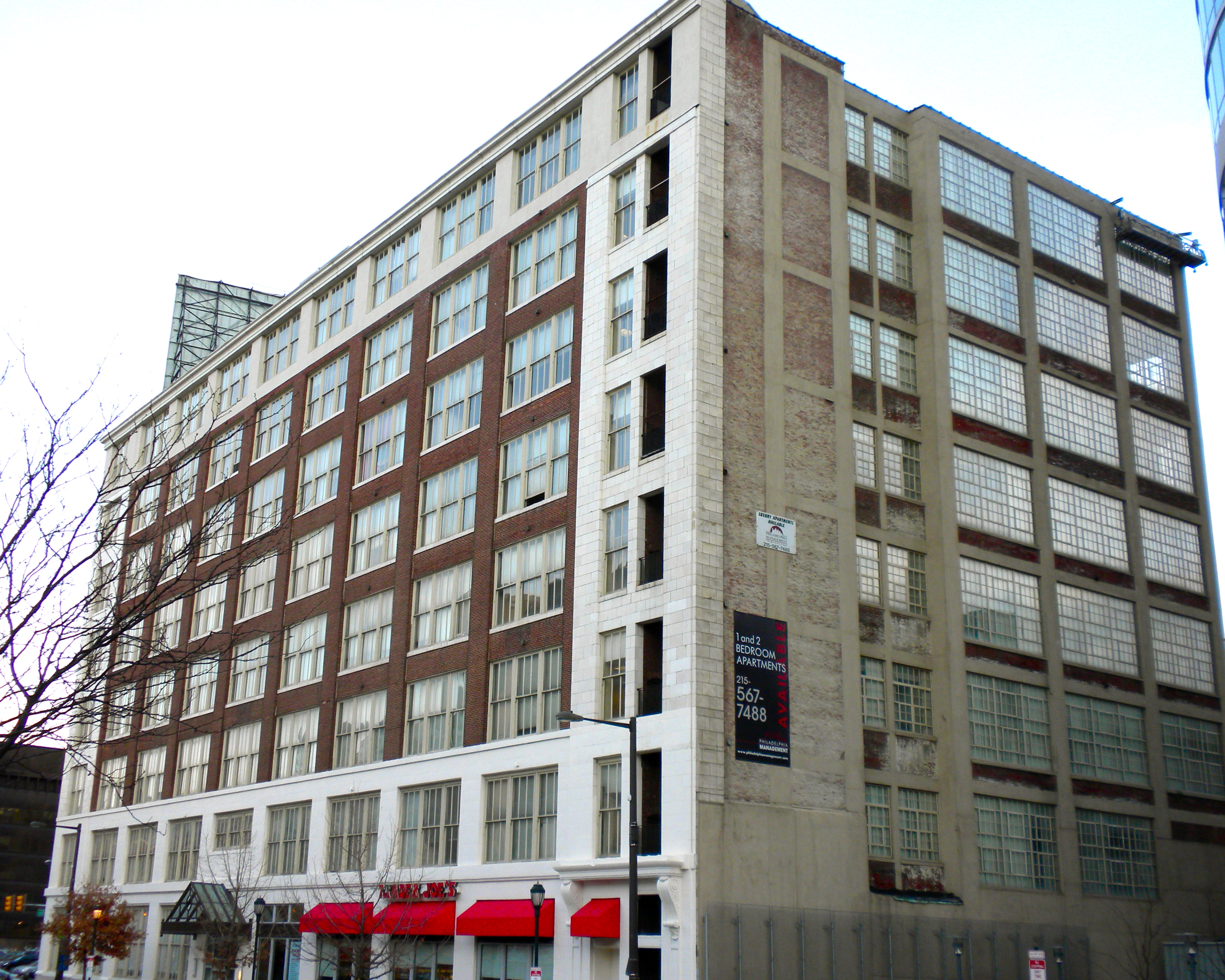 Harris Building in Philadelphia. On NRHP since August 31, 2001. At 2121–2141 Market Street near Market St. Bridge in Logan Square neighborhood of Center City